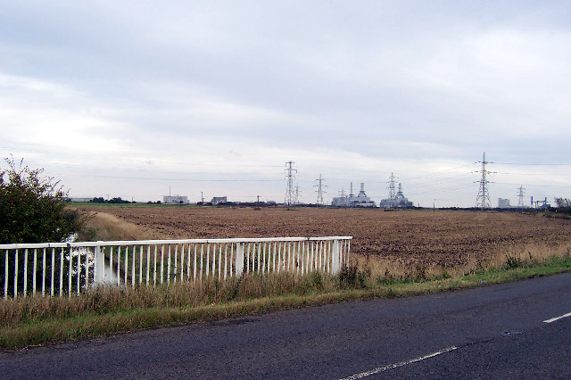 View from North Moss Lane